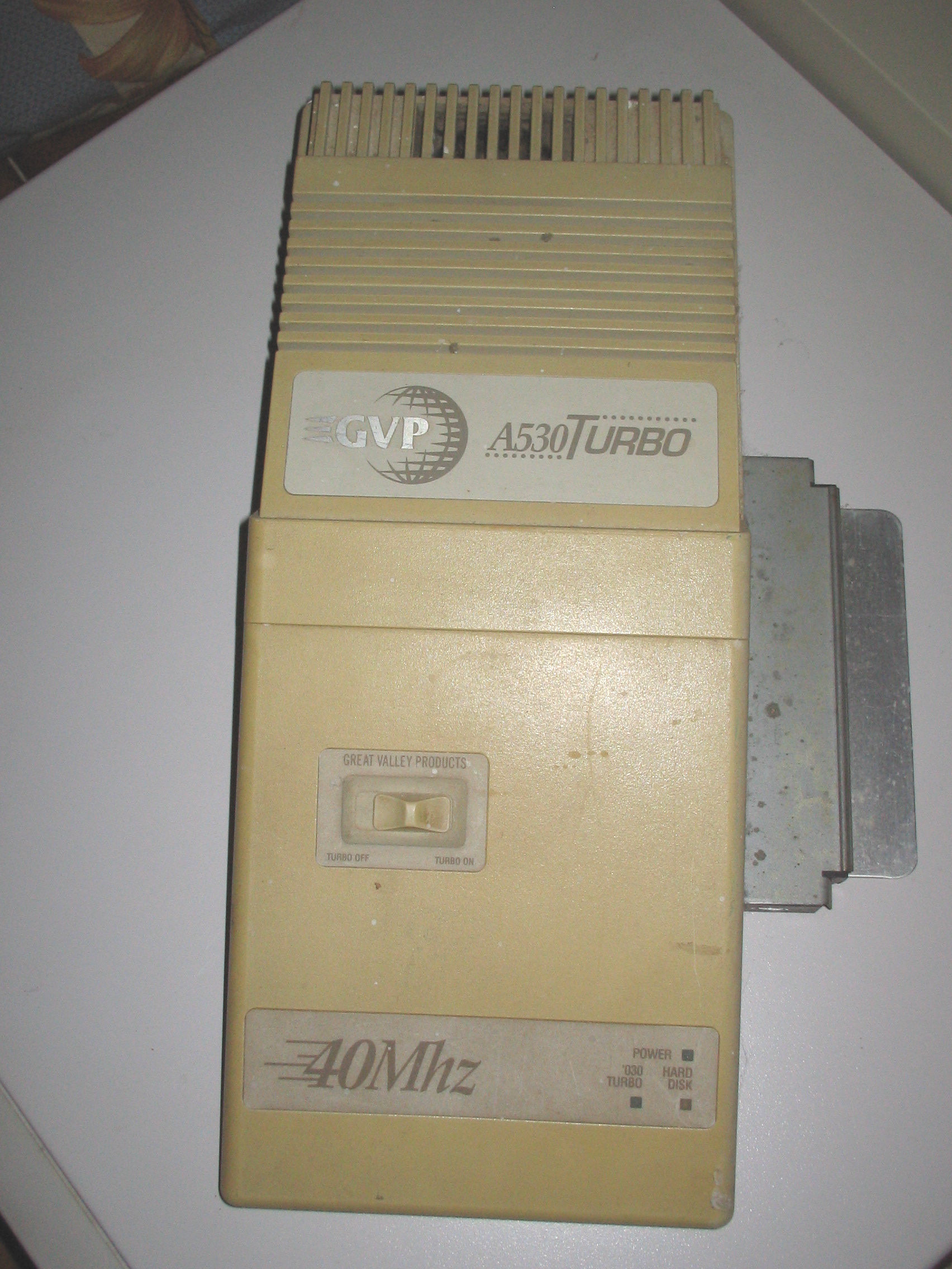 The A530 Turbo used to be an expansion board for the commodore Amiga 500